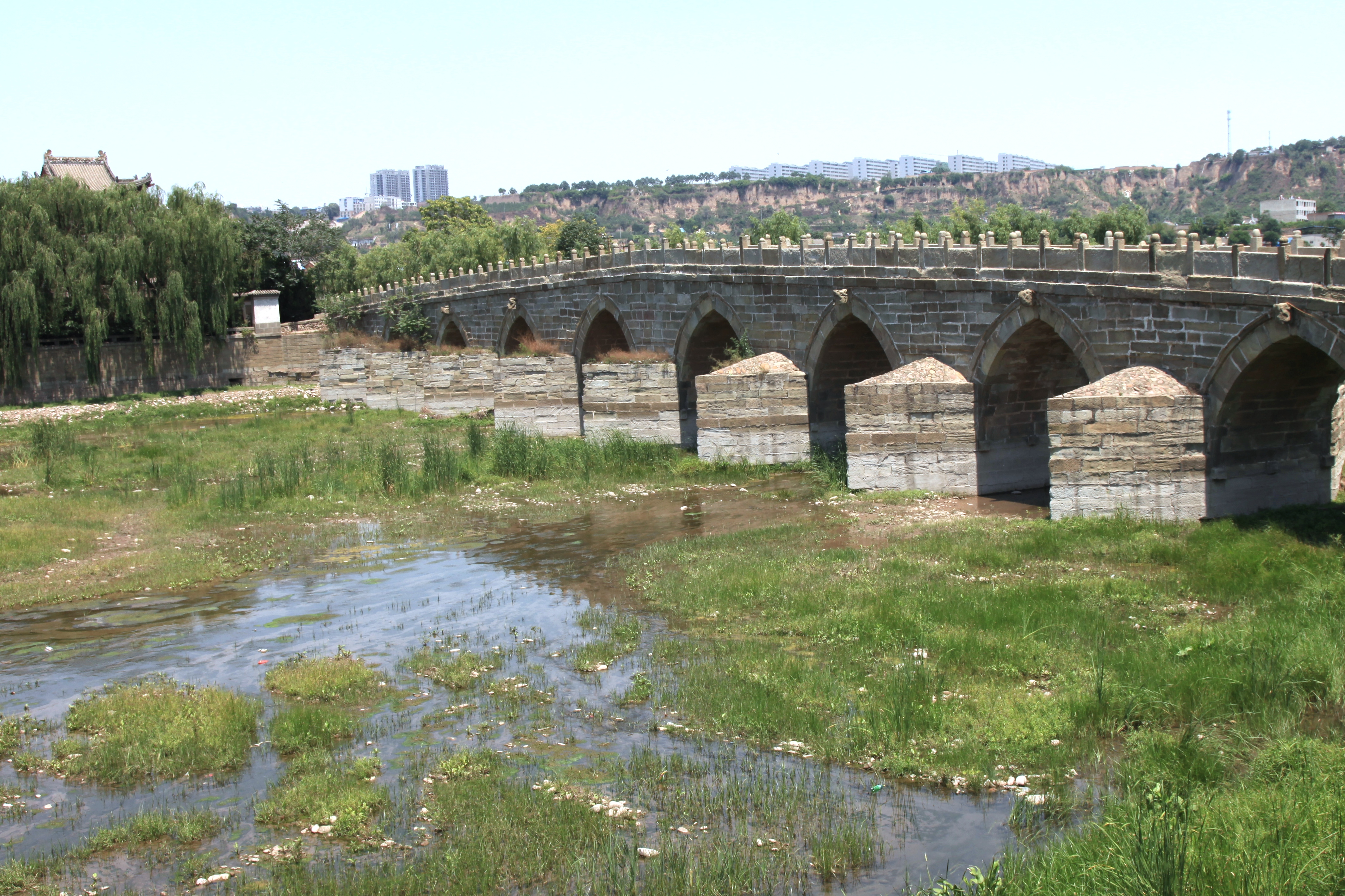 Hancheng City. View from the old Bridge. In Front the old City, on top the modern City. Hancheng, Shaanxi.